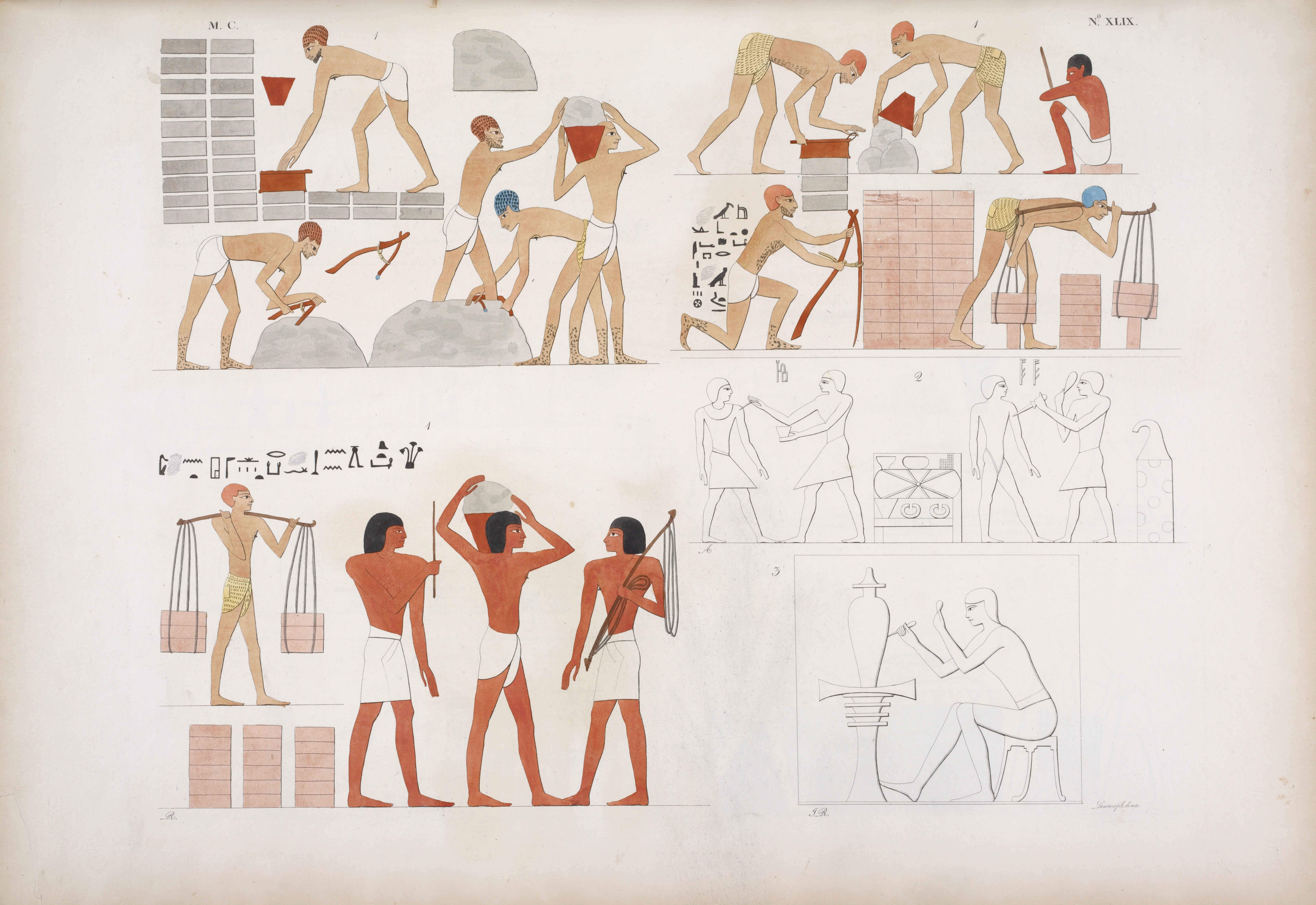 Gli Ebrei che fabbricano i mattoni. Pittori e scultori di statue e di vasi.